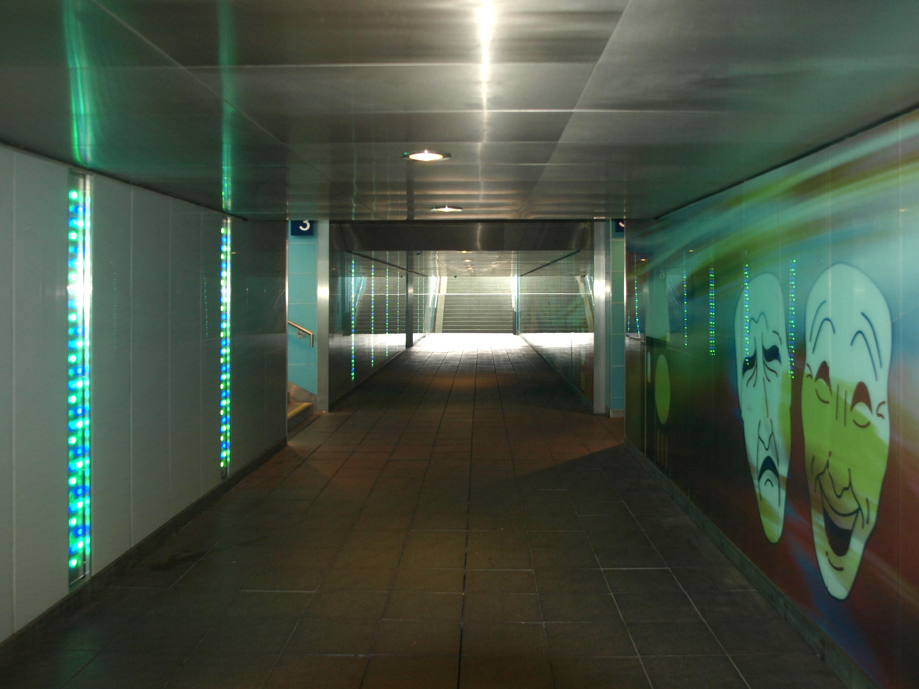 Pedestrian underpass of the train station in Bad Hersfeld, newly-made in 2007